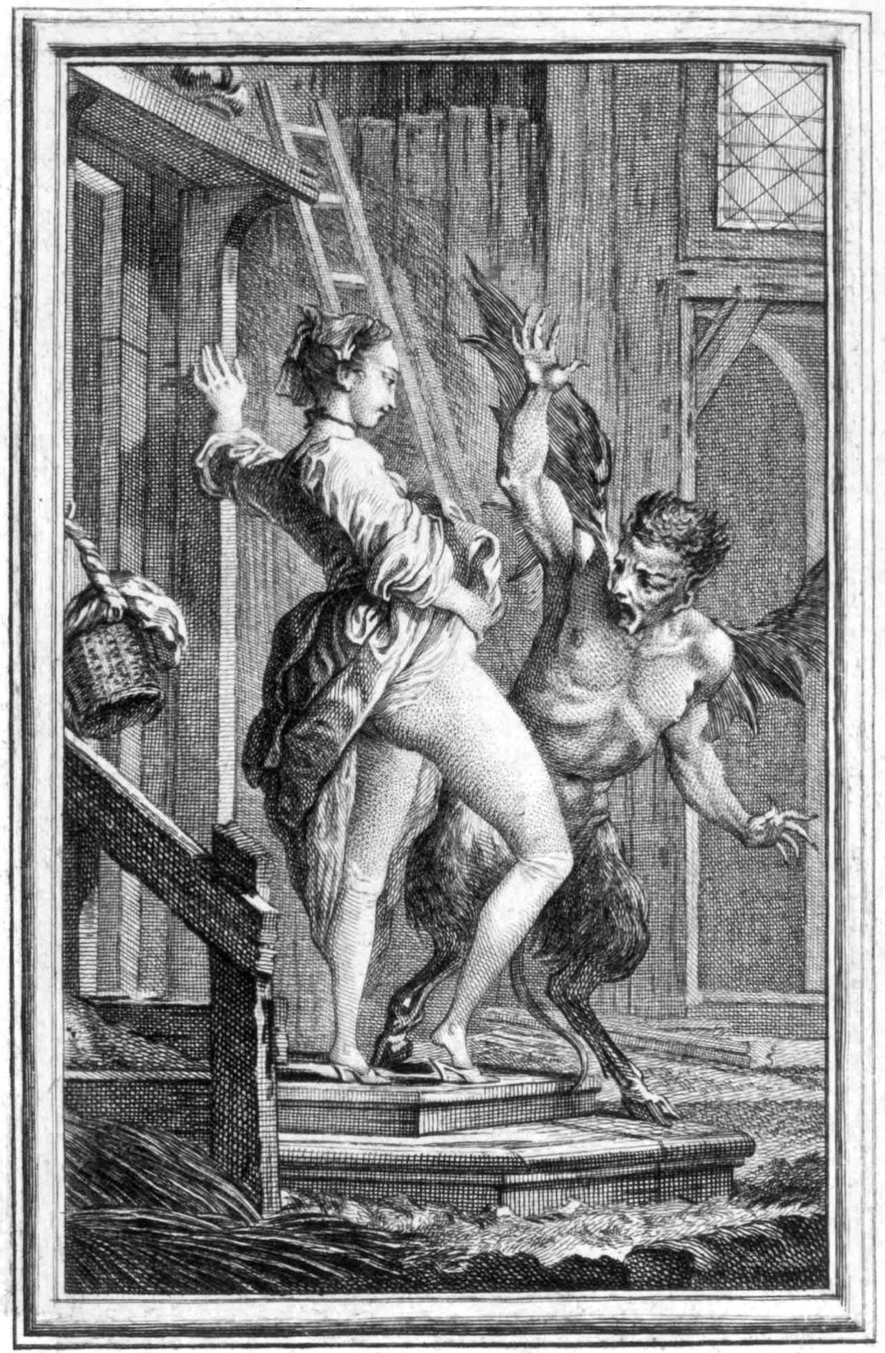 Illustration by Charles Eisen for The Devil of Pope-Fig Island by Jean de la Fontaine: Tales and Novels in Verse. Vol. 2 London 1896, p. 130